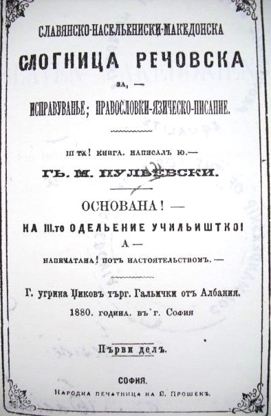 The front page of the "Macedonian Slavic population 'slognica rečovska', correction, correct- language writing" by G. Pulevski, published in Sofia, Bulgaria, 1880. This is one of the first published grammars of the Macedonian language.